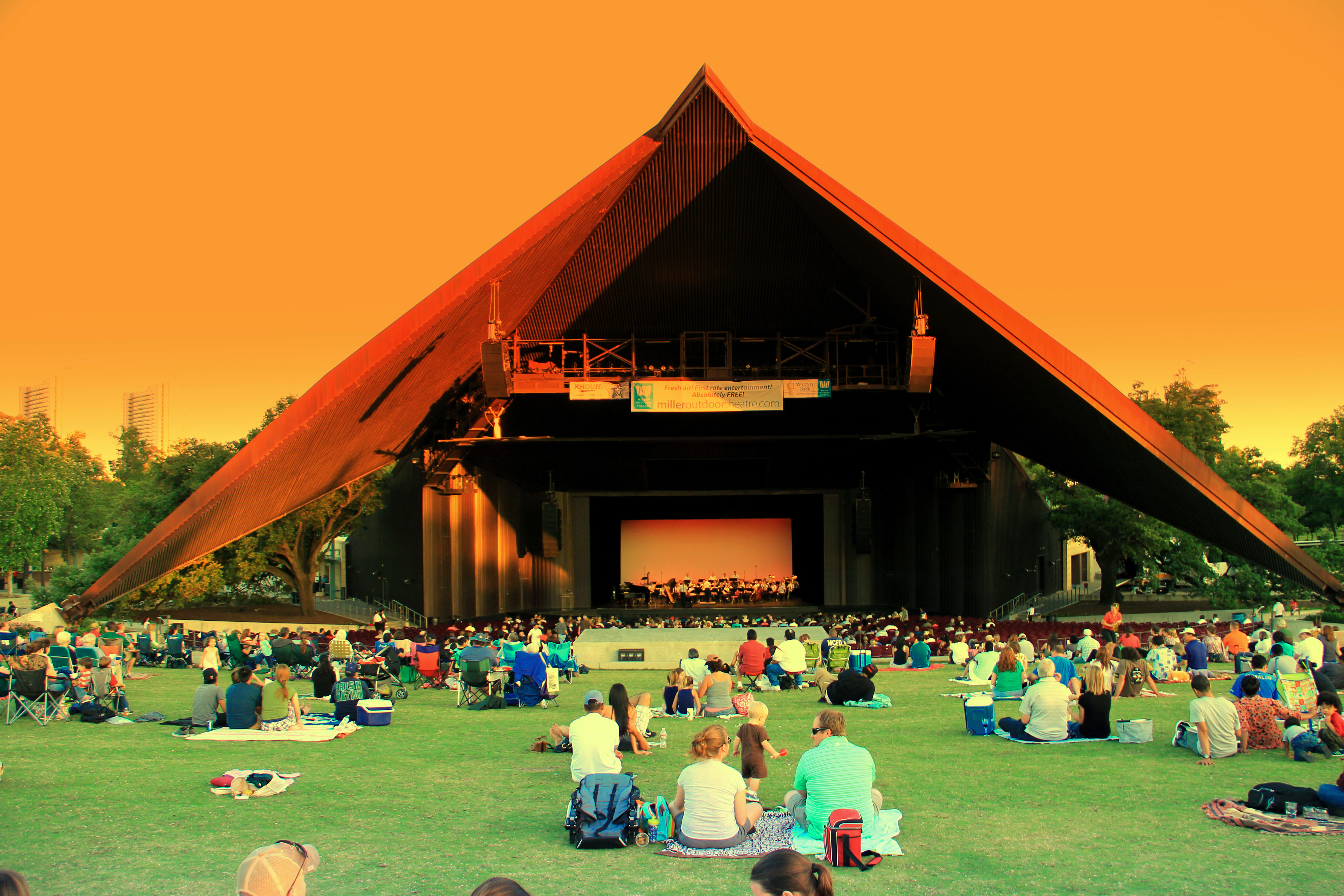 Miller Outdoor Theatre is the premier outdoor theater for the performing arts in Houston, Texas. It is located on approximately 7.5 acres (30,000 m2) of land in Hermann Park, at 6000 Hermann Park Drive, Houston, Texas 77030. The theater offers a wide range of professional entertainment, including classical music, jazz, ballet, Shakespeare, musical theater, and classic films, with free performances running from March through November, where the general public can relax in a covered seating area or enjoy a pre-performance picnic on an amphitheatre-style hillside.[1]